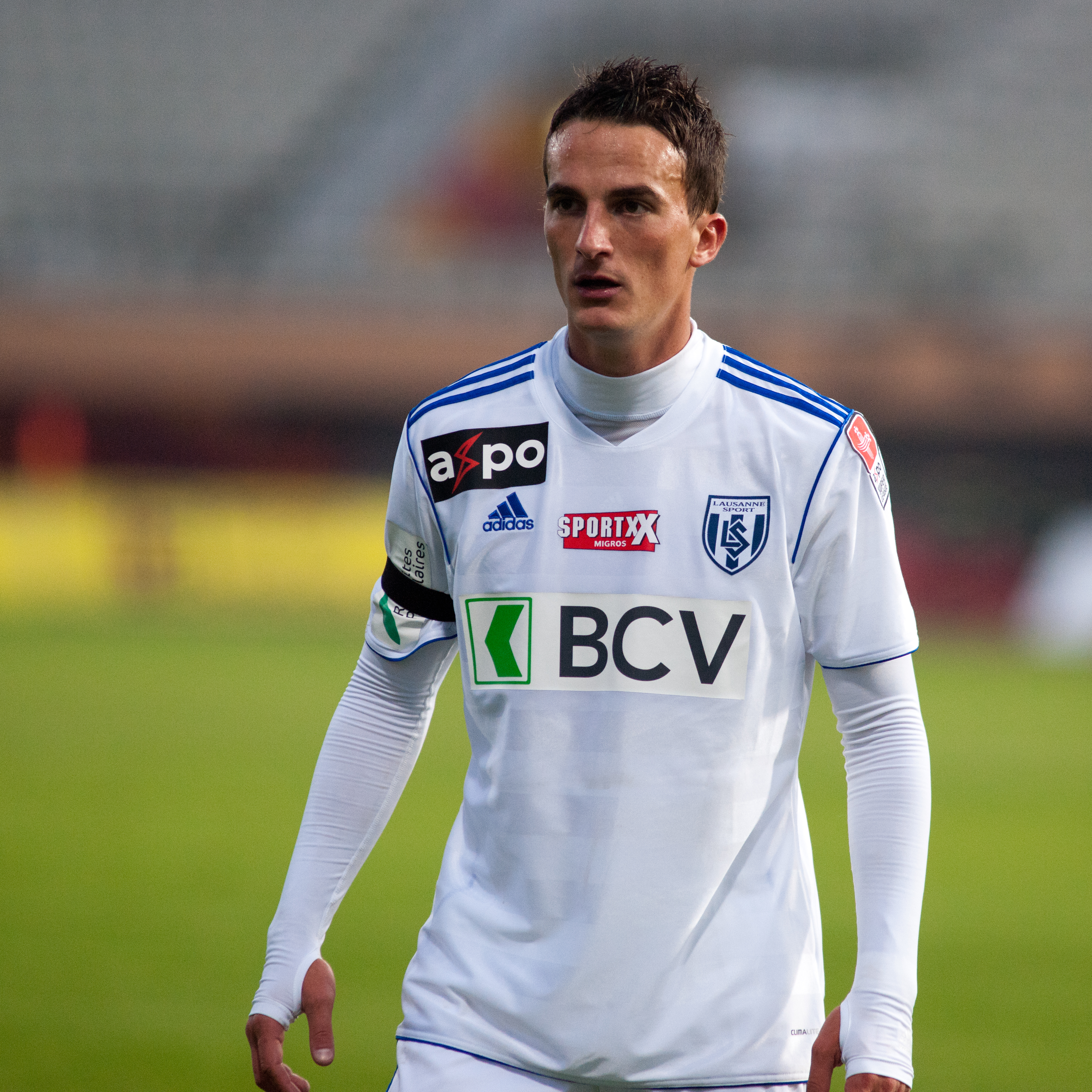 The making of this document was supported by Wikimedia CH. (Submit your project!) For all the files concerned, please see the category Supported by Wikimedia CH. Lausanne Sport vs. FC Thun - 22.10.2011